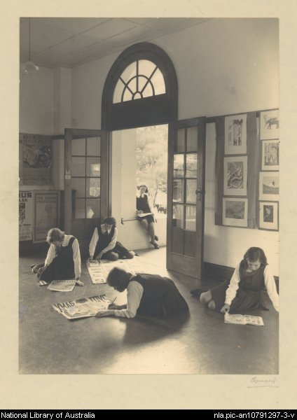 Image title:In the studio [picture] Description: Students at Frensham School, 1934.